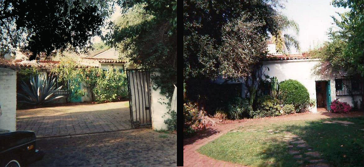 Former home of Marilyn Monroe, Brentwood, Los Angeles, California. Composite of two photos.